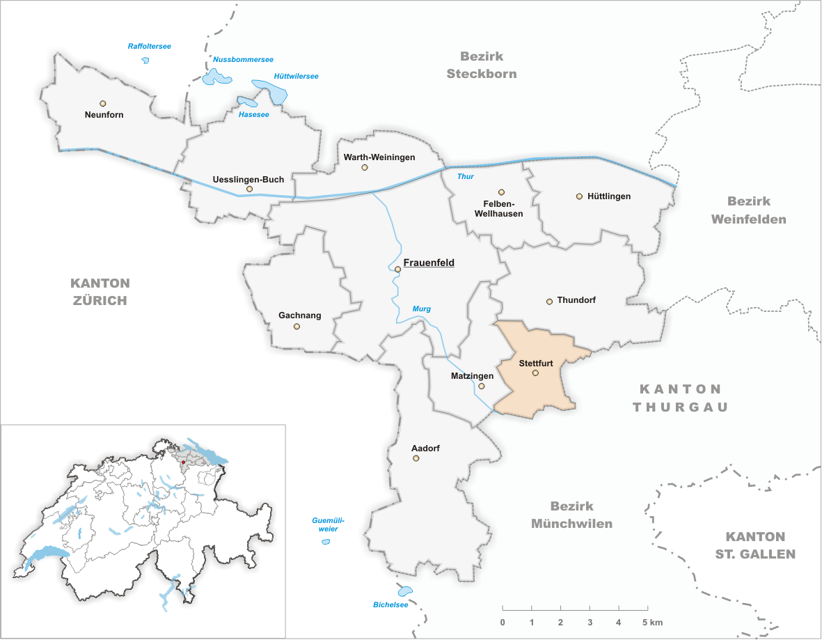 Municipality Stettfurt